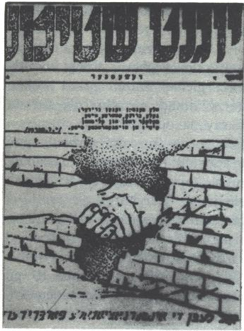 Yugnt Shtimme (יוגנט שטימע), or the Youth Voice. Clandestine poster of the Żydowska Organizacja Bojowa (ŻOB) during German occupation of Poland. Text of message: "אלע מענטשן זענען ברידער: געלע, ברוינע, שווארצע ווייסע; פעלקער, ראסן און קלימאטן - ס'איז אן אויסגעטראכטע מעשה!" English translation: All people are brothers; Yellow, brown, black, and white. Talk of peoples, colors, races - Is all a made-up story!